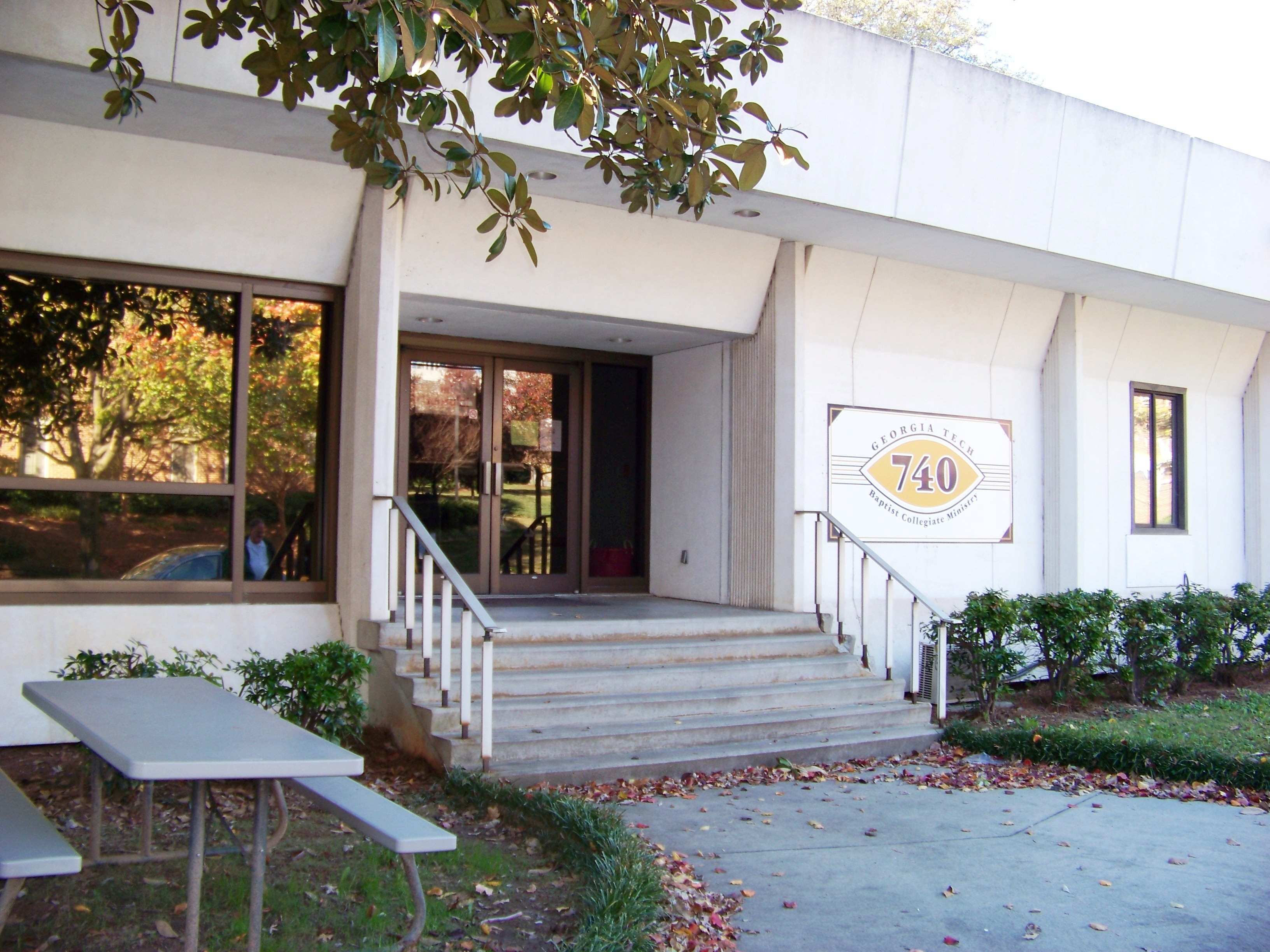 Baptist Collegiate Ministries at Georgia Tech